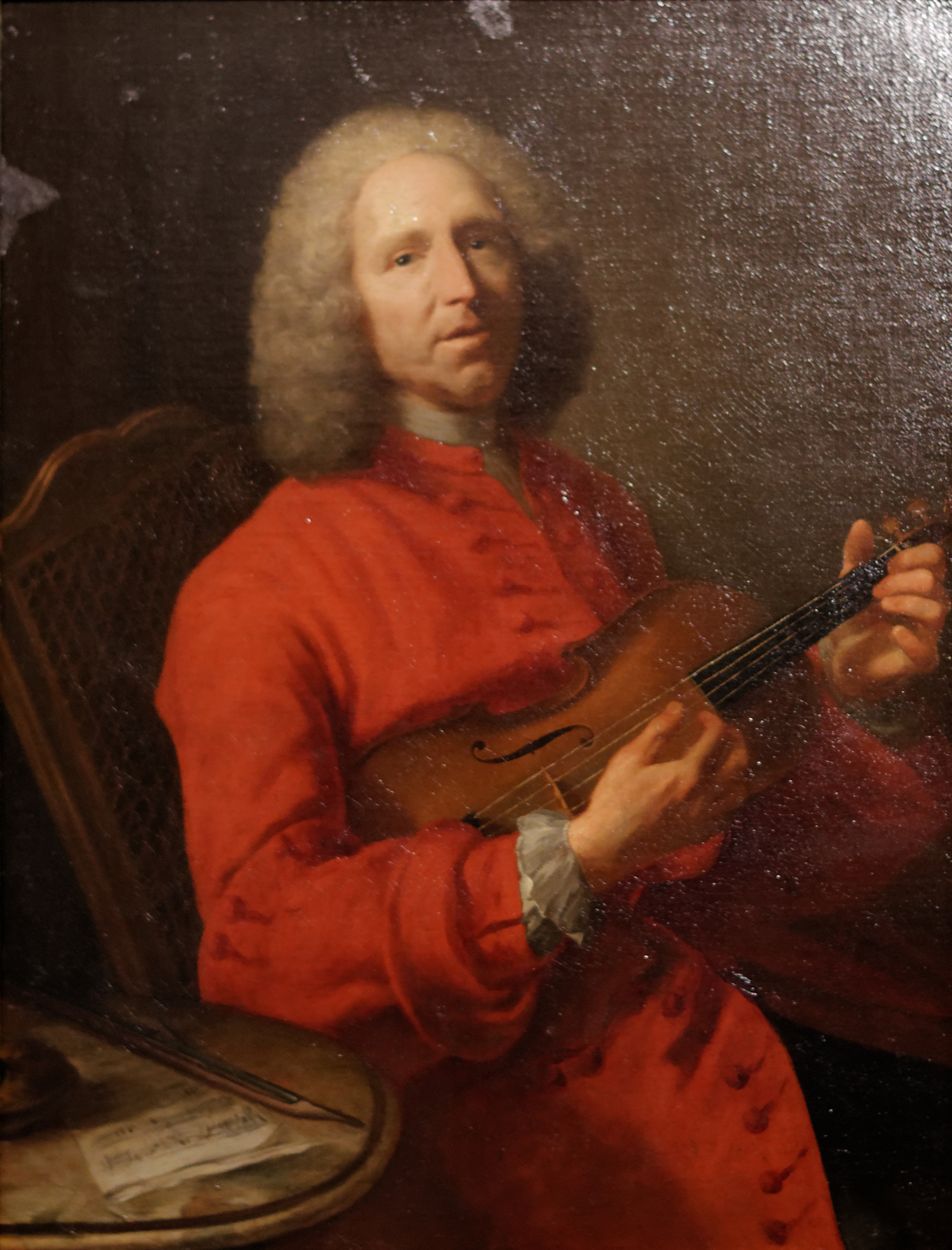 Depicted person: Jean-Philippe Rameau (1683–1764), French composer and music theorist of the Baroque era